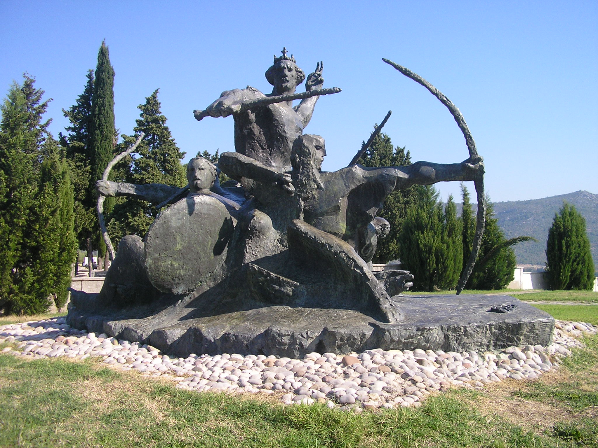 Domagoj archers monument in Vid, Croatia